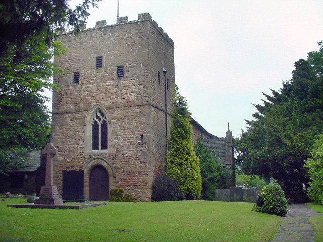 Nuthall. St Patricks church